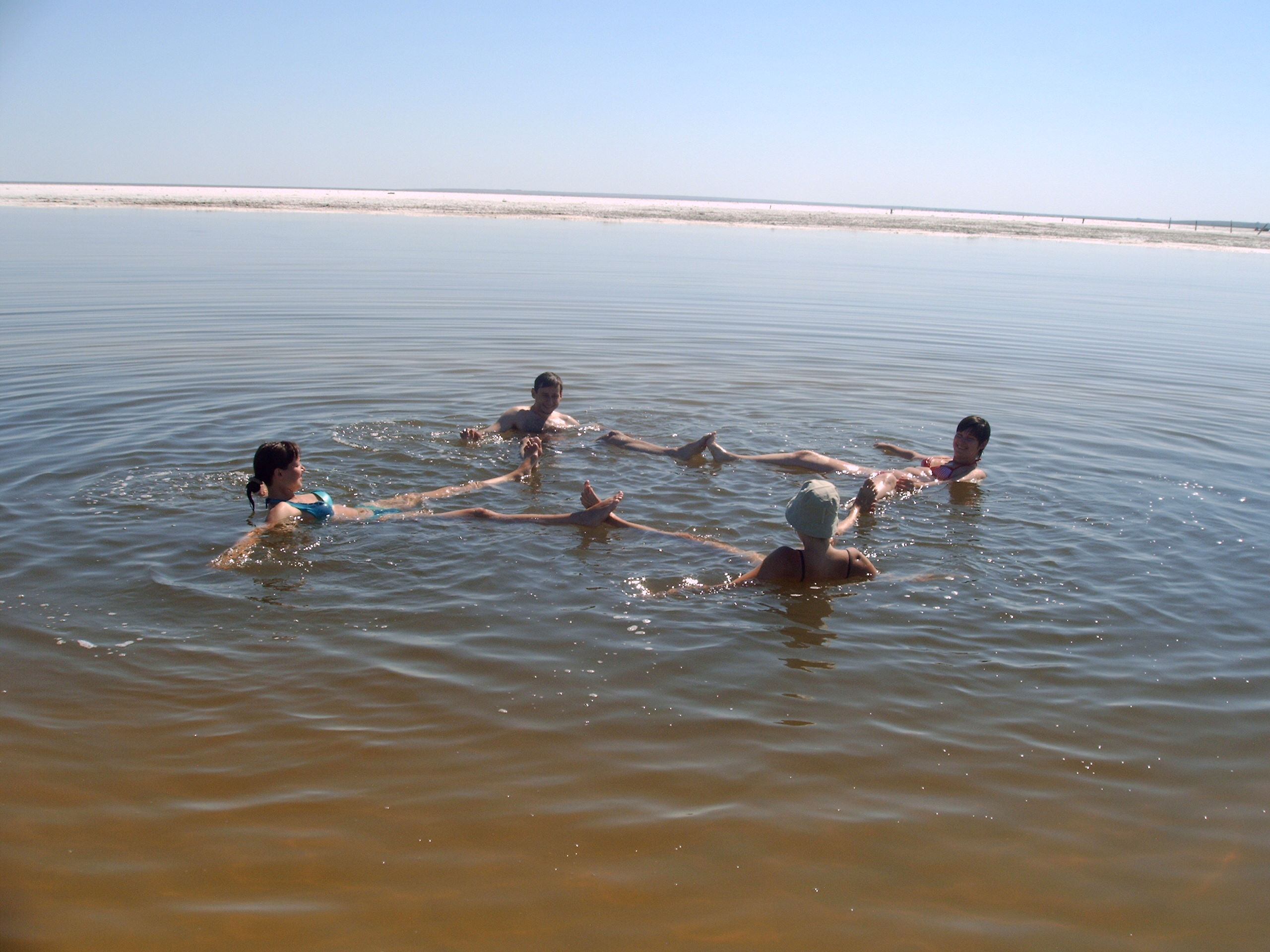 People are in the water of Lake Baskunchak.